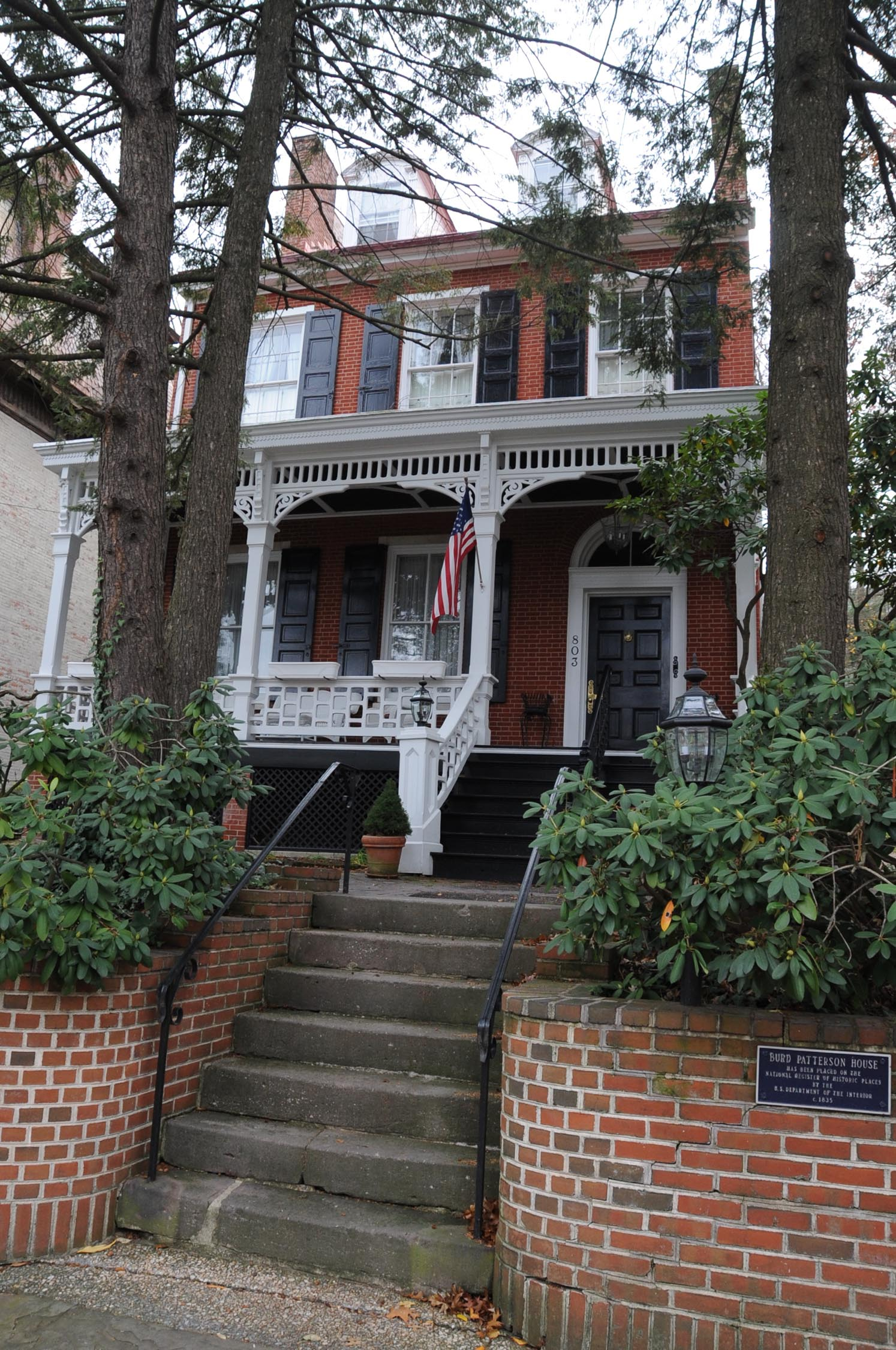 PATTERSON DEVELOPED SLOPE METHOD FOR MINING BELOW WATER TABLE IN 1835. HE WAS THE FIRST SUCCESSFUL SMELTER OF ANTHRACITE COAL